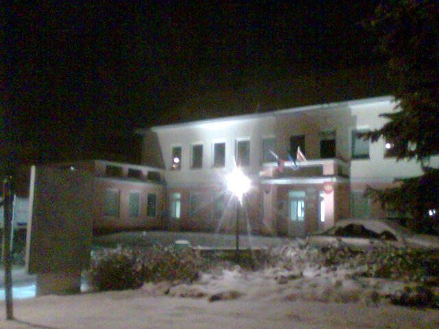 Town hall of Nová Dubnica